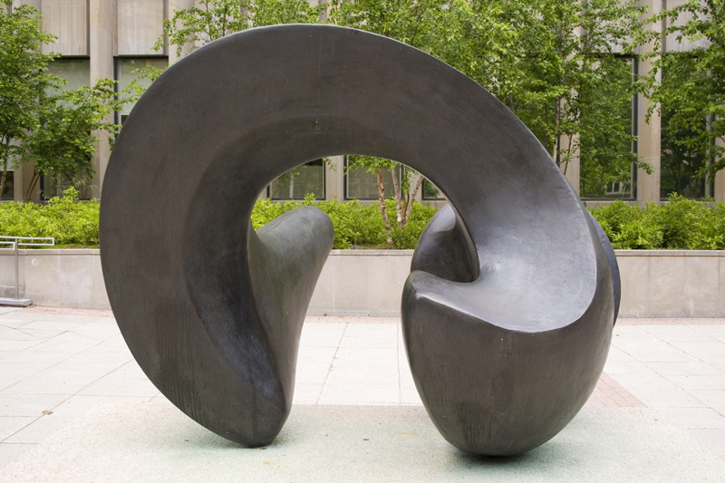 "A sculpture by Maryon Kantaroff. Dedicated to an advocate of human rights. Funded by relatives, colleagues, and friends. June 26 1980."